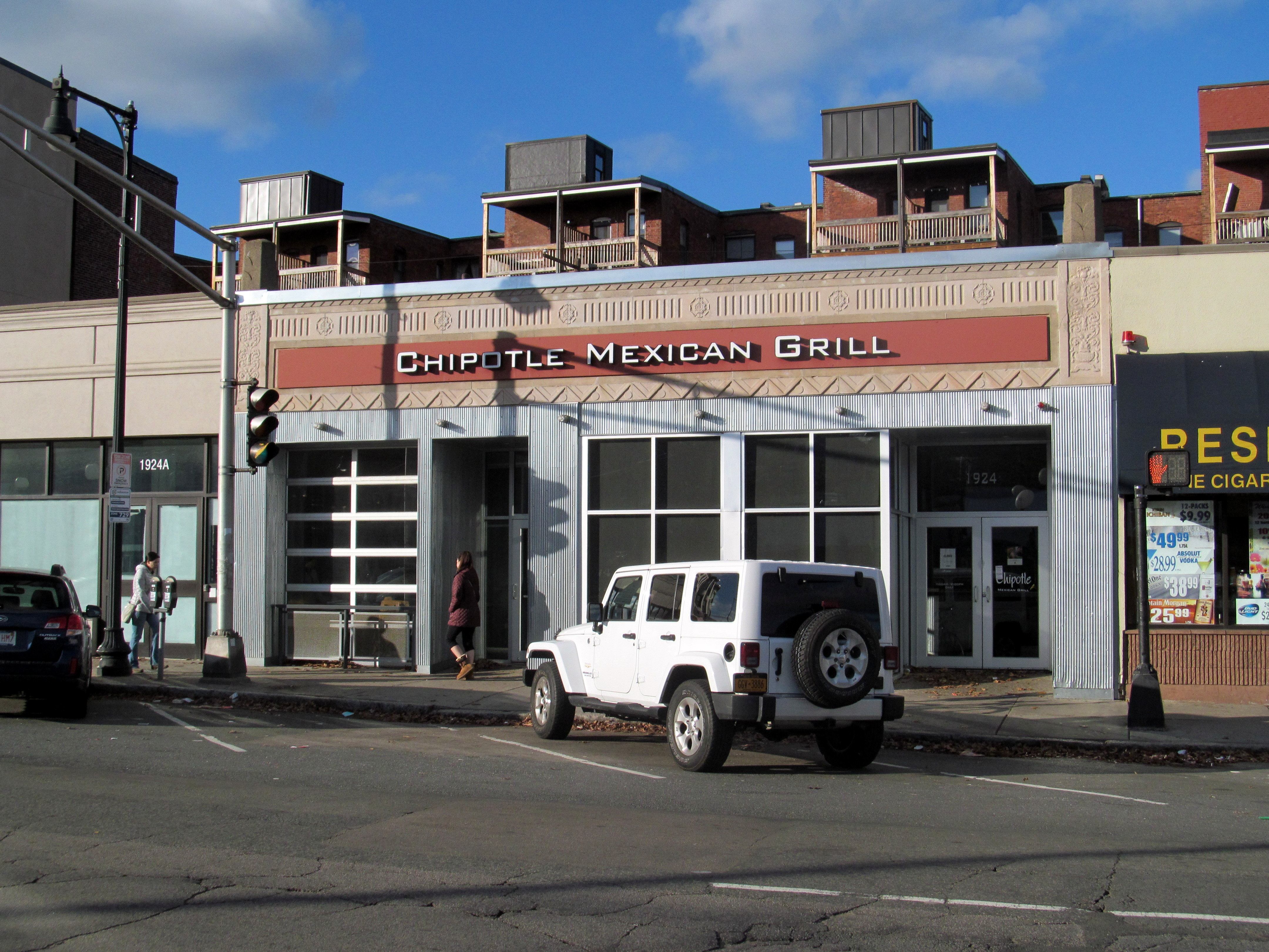 Chipotle Mexican Grill restaurant on Beacon Street in Cleveland Circle, Brighton. The restaurant was closed on December 3, 2015 after 140 people were sickened by a norovirus after eating there.